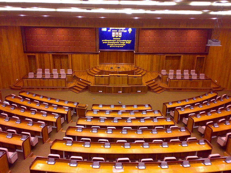 The debating chamber of the National Assembly of Cambodia.